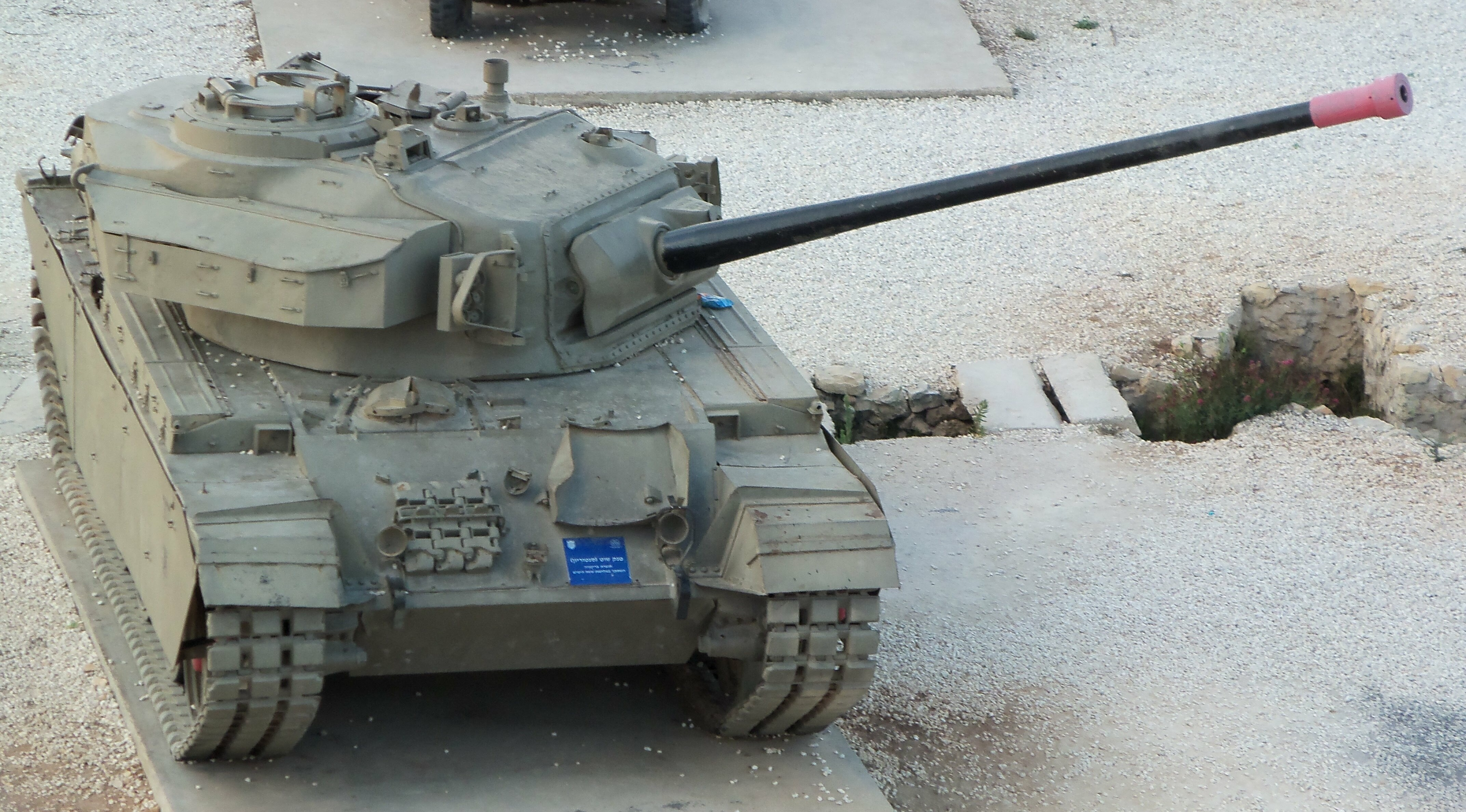 Armoured fighting vehicles in Har Adar, at the Harel Brigade memorial site